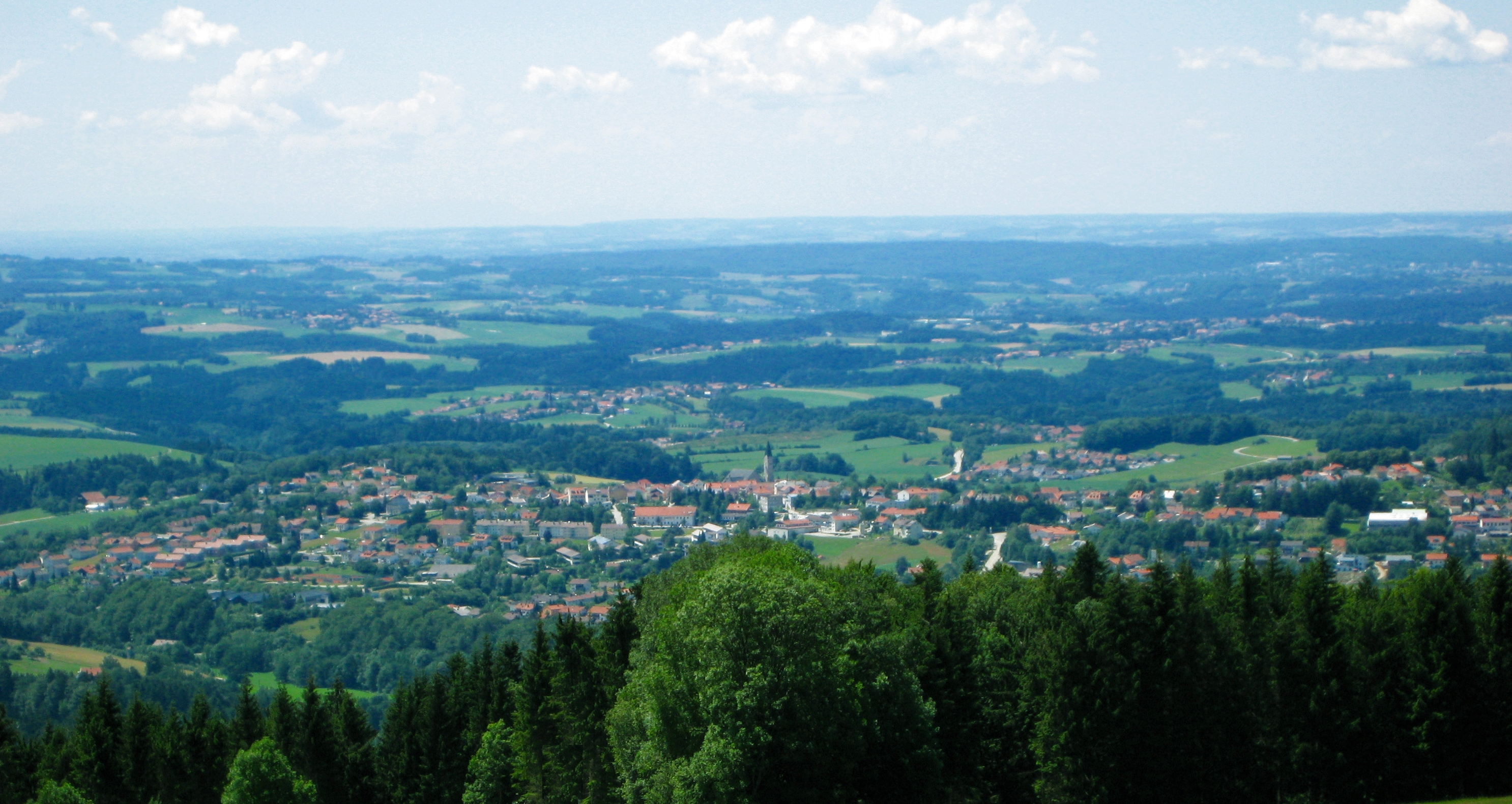 Hauzenberg